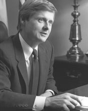 Steve Bartlett, US Representative from Texas